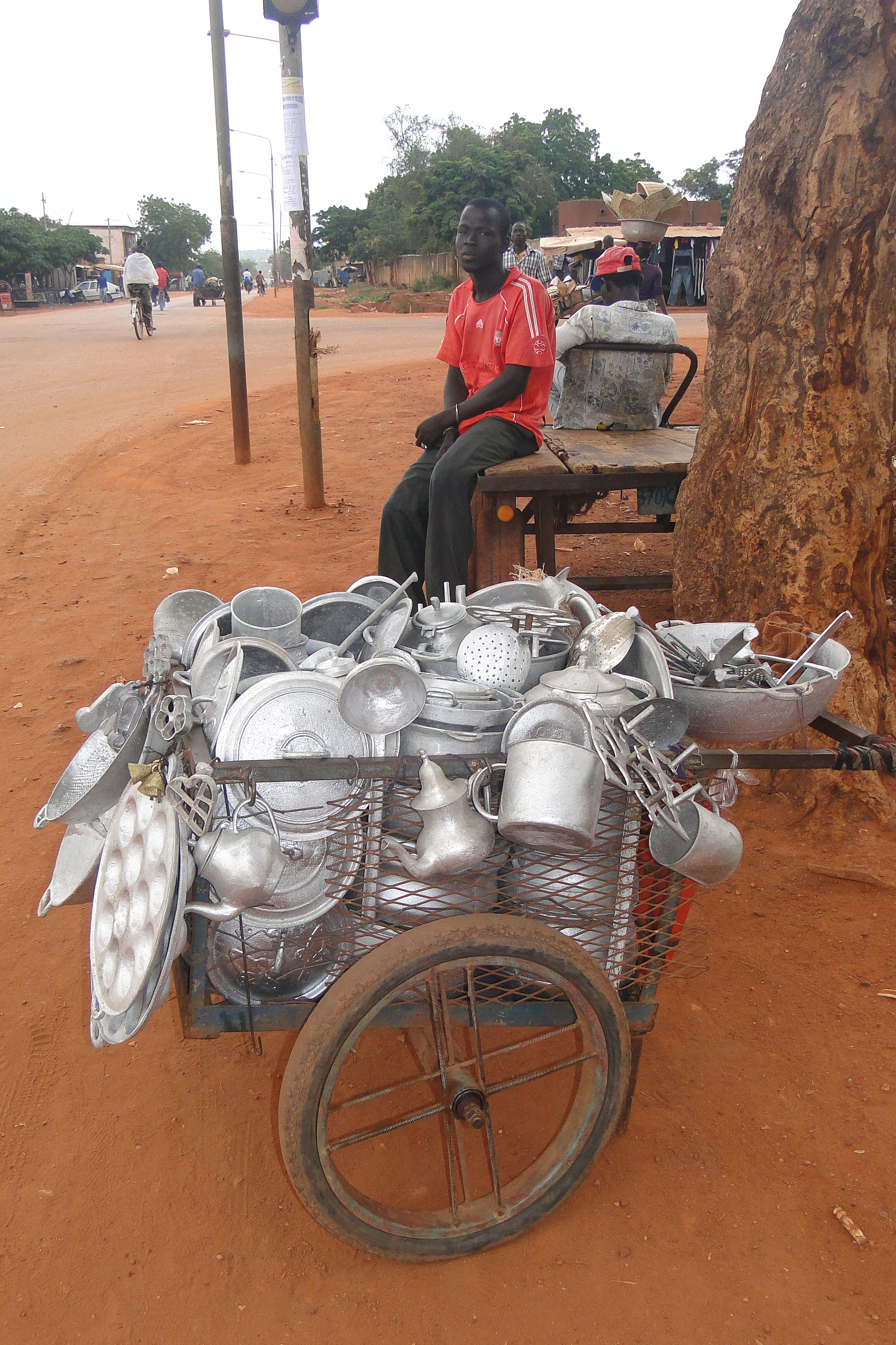 Household Goods Vendor - Bobo-Dioulasso - Burkina Faso